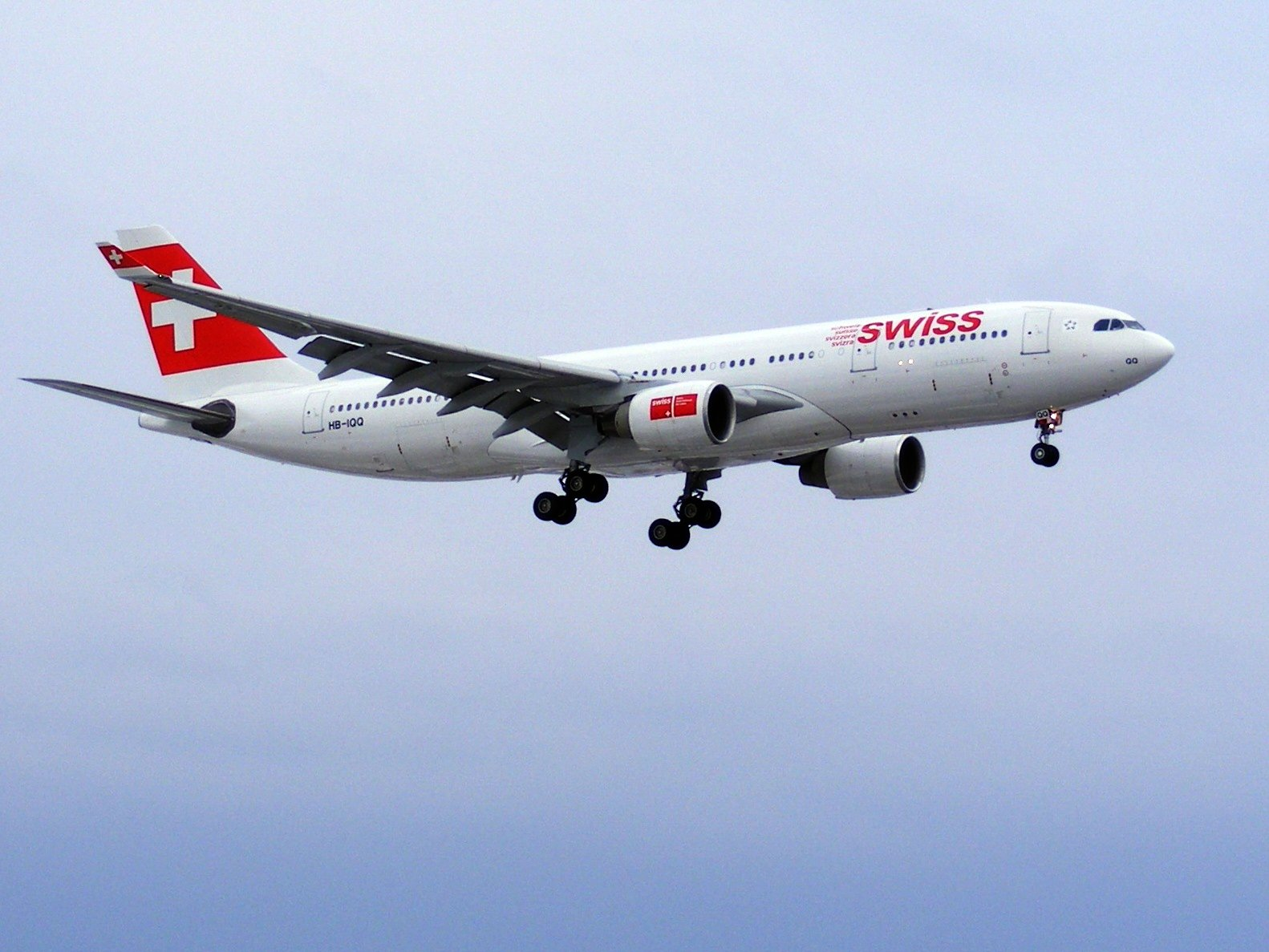 Swiss Airbus A330-223 (HB-IQQ) landing at "Aéroport international Pierre-Elliott-Trudeau de Montréal.".